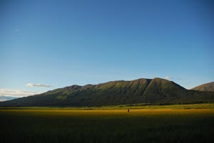 Sacred Headwaters - The shared birthplace of the Skeena, Nass and Stikine Rivers